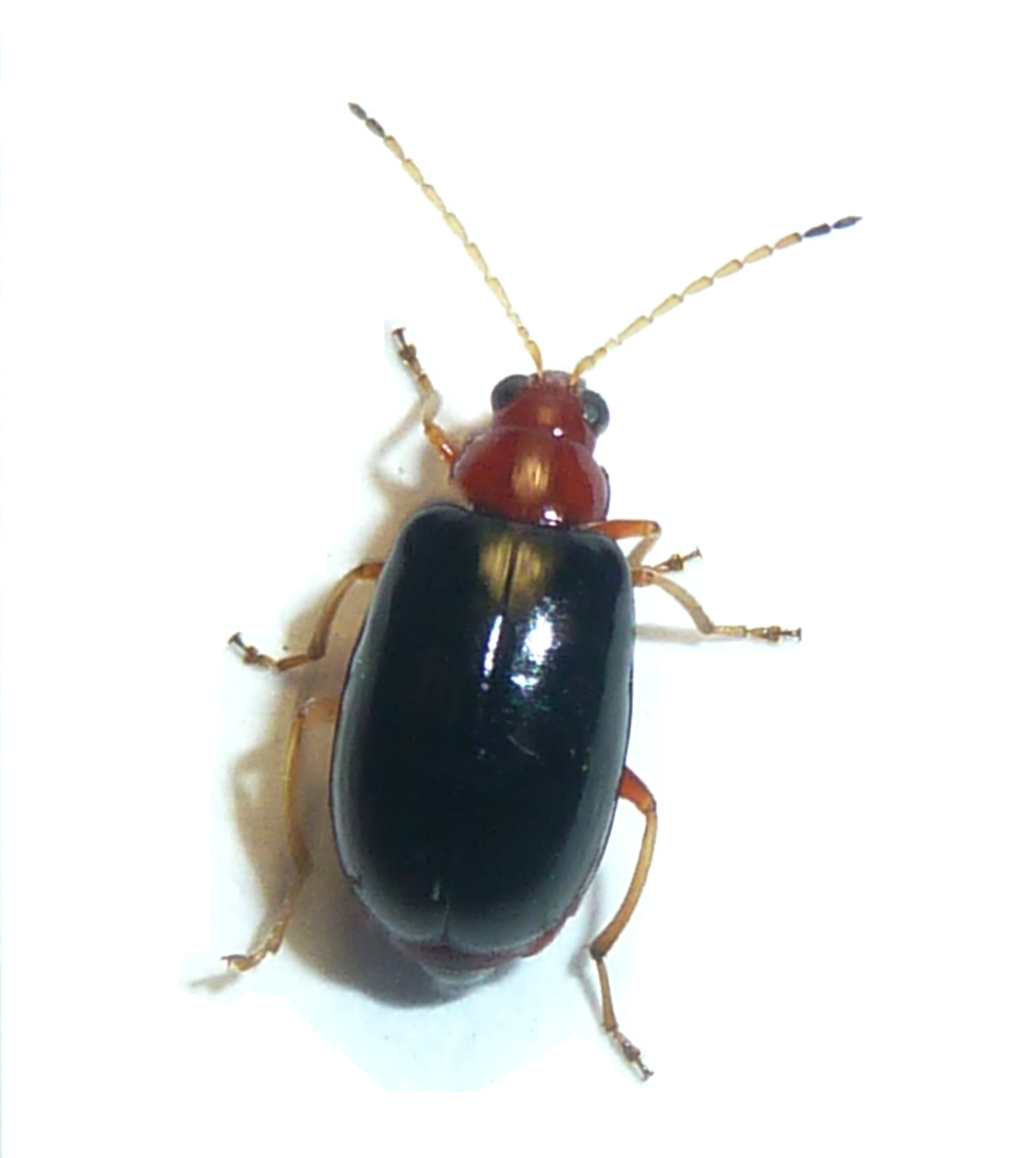 Monolepta marginella in suburban Pretoria. The species associates with Acacia karroo.